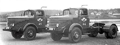 Vanaja VK-5 lorries from 1951, powered by Saurer F130 diesel engines.